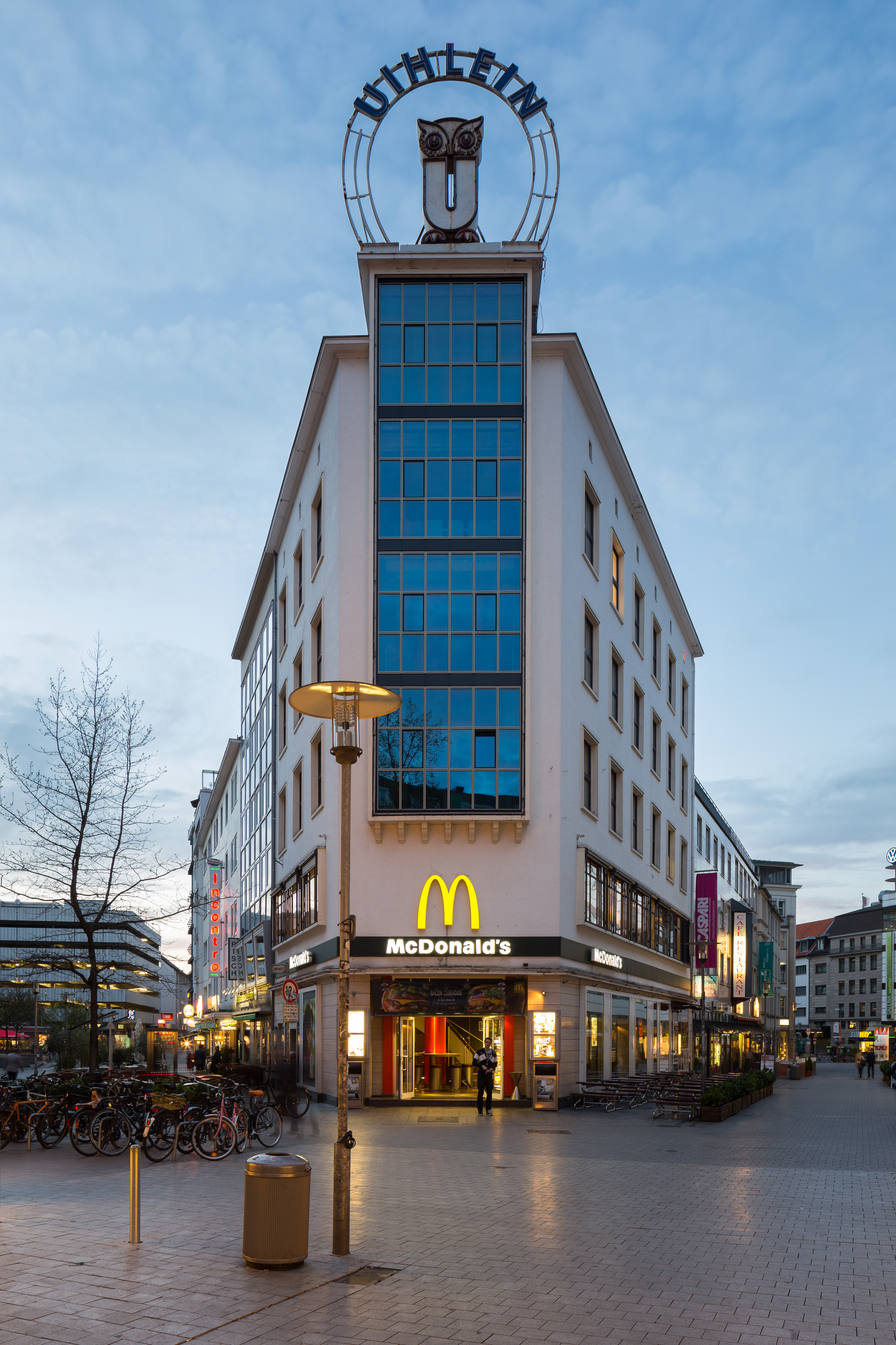 Office building, former belonging to Uihlein company, located at Andreaestrasse no. 1 in Mitte quarter of Hannover, Germany.